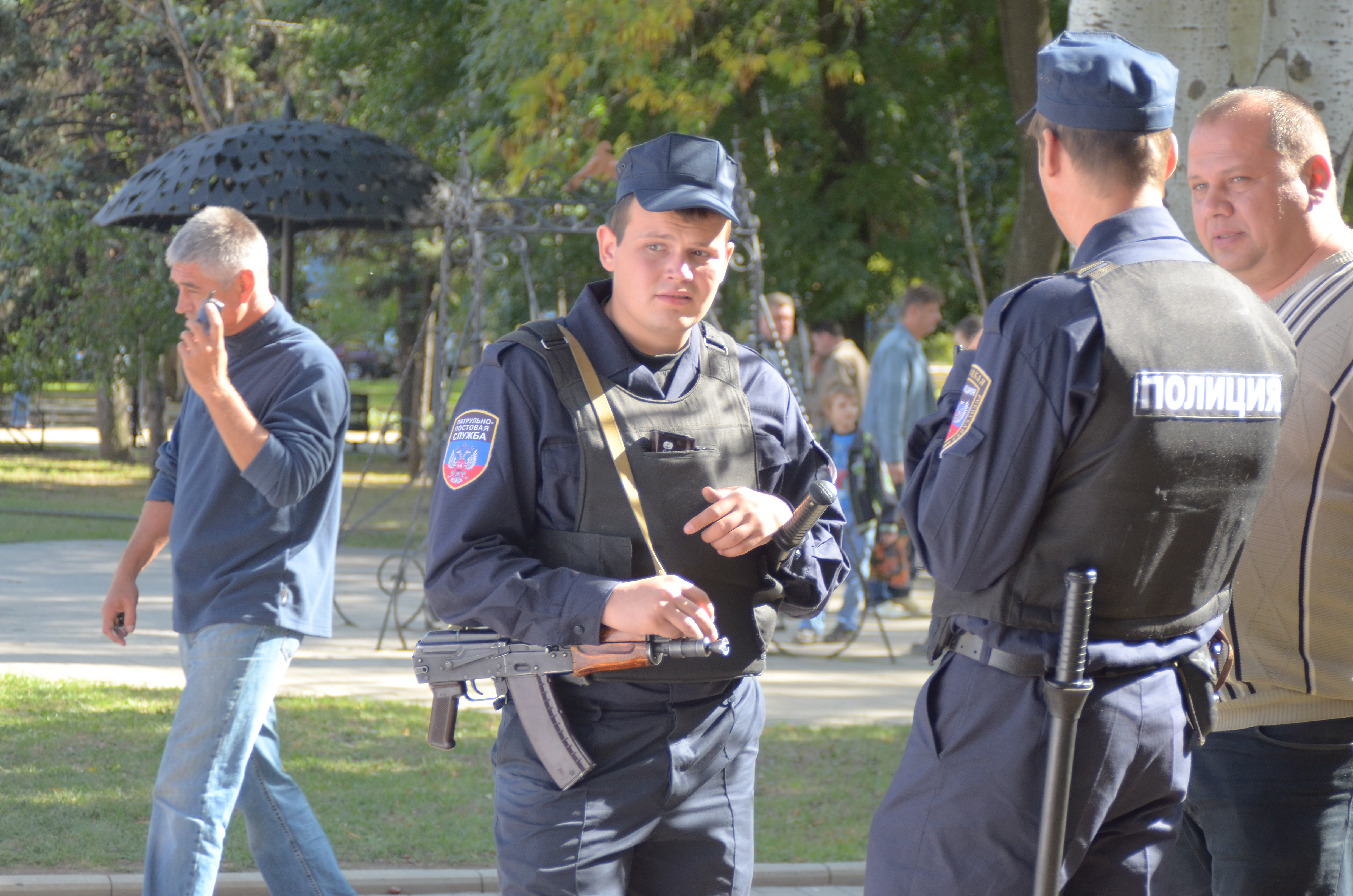 Policemen of the Donetsk People's Republic at the smithcraft festival in Donetsk. The policeman in the photograph's center is armed with a AKS-74U.